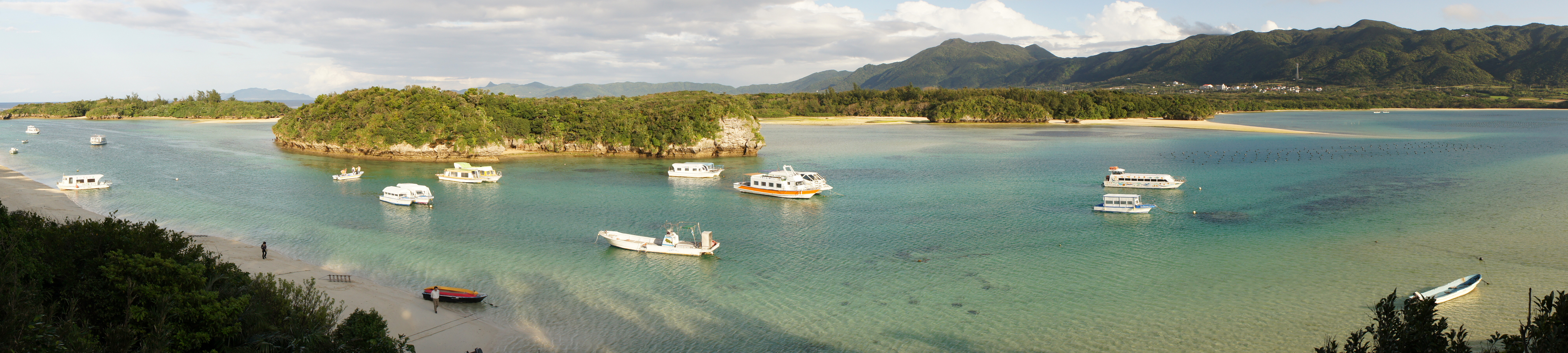 Kabira Bay of Ishigaki Island in Ishigaki City, Okinawa Prefecture, Japan. It is one of the Japan's Places of Scenic Beauty.